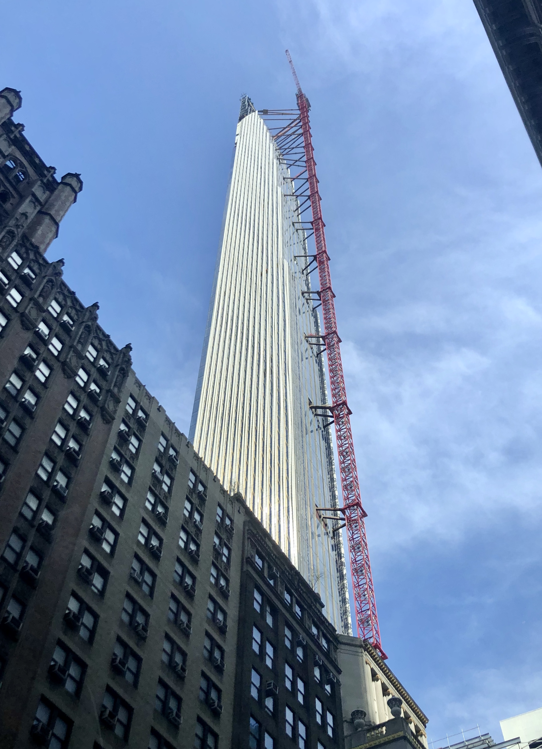 View of 111 West 57th Street, AKA the Steinway Tower, from 57th Street on April 25, 2020. Photo by Chris6d.